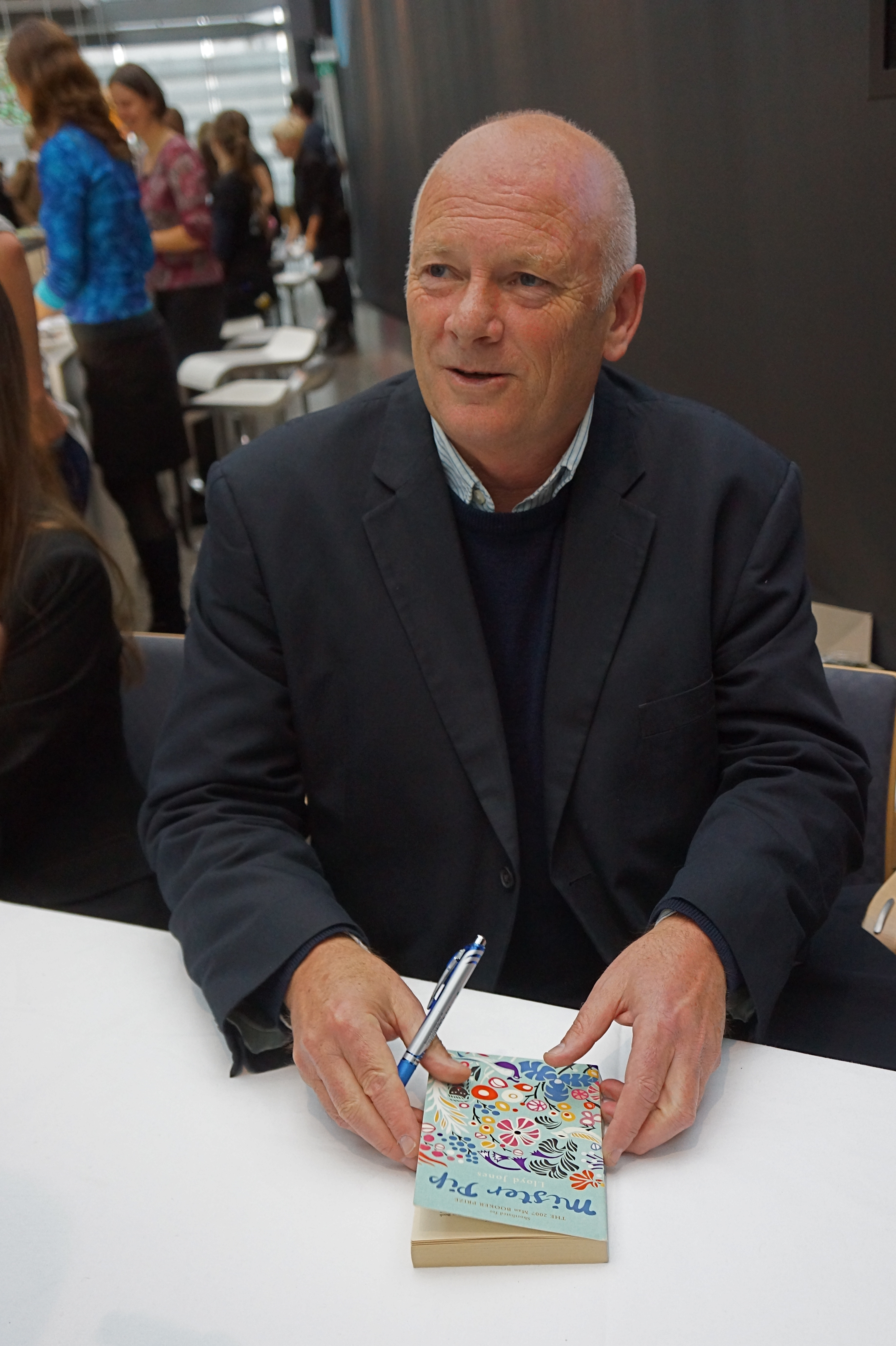 Lloyd Jones in Frankfurt in October 2012.